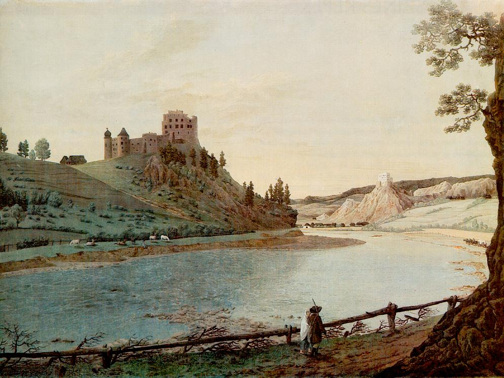 Csorsztin and Nedecz